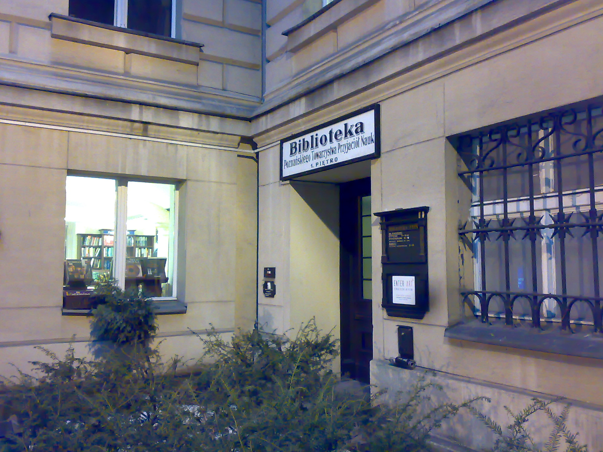 PTPN Library, Poznan, Mielzynskiego Street.